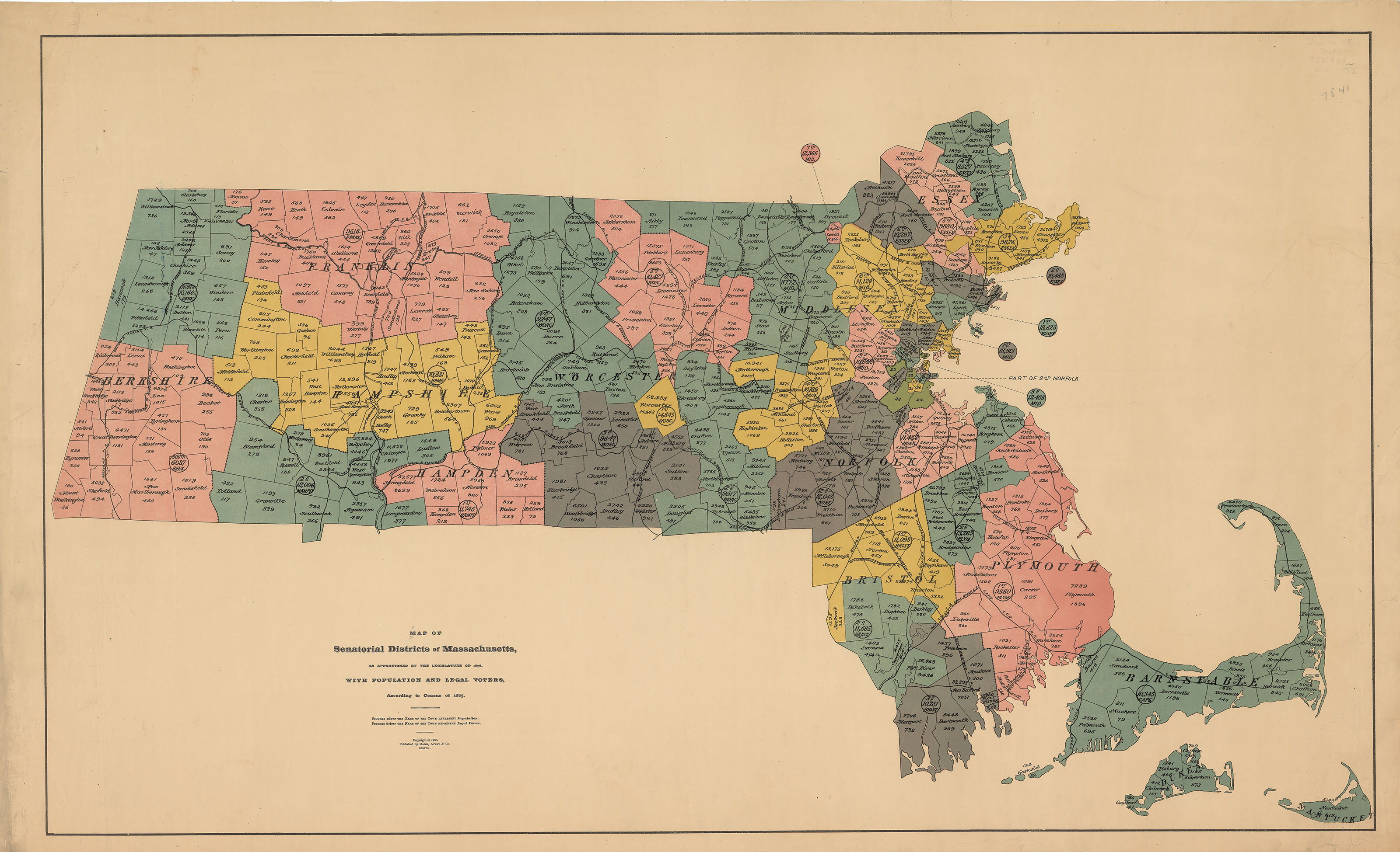 Map of districts of the Massachusetts state senate apportioned in 1876. The map includes 1885 population information. More information: Acts and Resolves of the Massachusetts General Court, 1876 Chap. 0190. An Act To Divide The Commonwealth Into Forty Districts For The Choice Of Senators. State senate districts depicted:[1] 1st Bristol district 1st Essex district 1st Hampden district 1st Middlesex district 1st Norfolk district 1st Plymouth district 1st Suffolk district 1st Worcester district 2nd Bristol district 2nd Essex district 2nd Hampden district 2nd Middlesex district 2nd Norfolk district 2nd Plymouth district 2nd Suffolk district 2nd Worcester district 3rd Bristol district 3rd Essex district 3rd Middlesex district 3rd Suffolk district 3rd Worcester district 4th Essex district 4th Middlesex district 4th Suffolk district 4th Worcester district 5th Essex district 5th Middlesex district 5th Suffolk district 5th Worcester district 6th Essex district 6th Middlesex district 6th Suffolk district 7th Middlesex district 7th Suffolk district 8th Suffolk district Cape district Franklin district Hampshire district North Berkshire district South Berkshire district